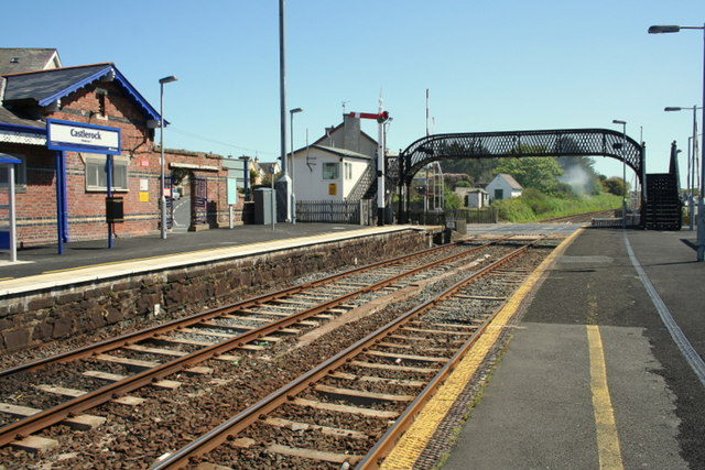 On the platform at Castlerock railway station